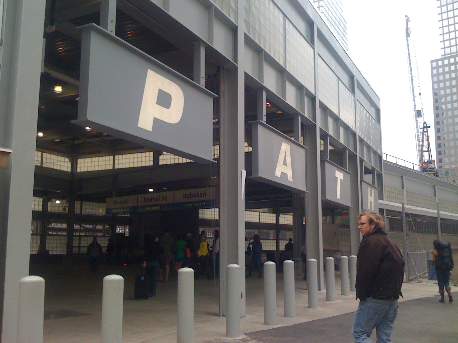 Temporary WTC PATH station entrance (April 2008)